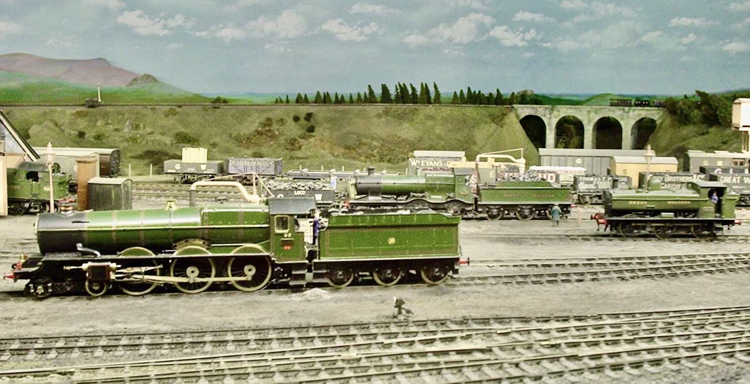 Photo by William J. Grimes